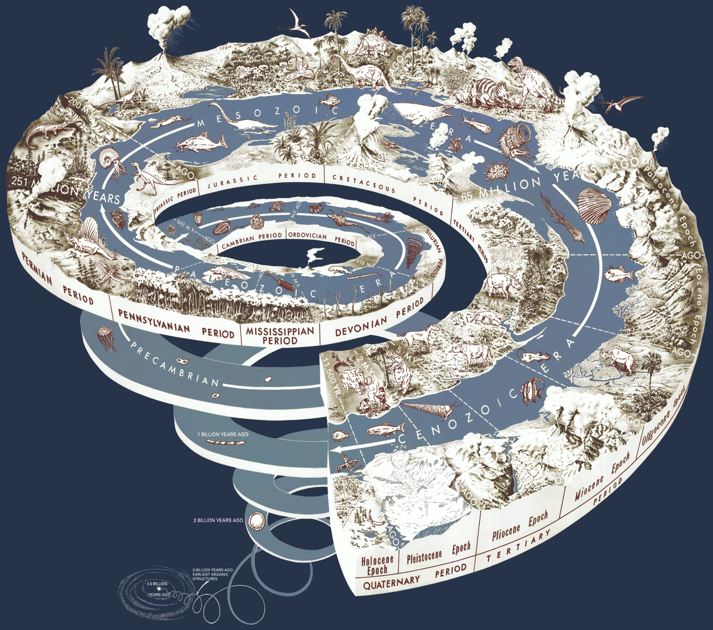 A diagram of the geological time scale